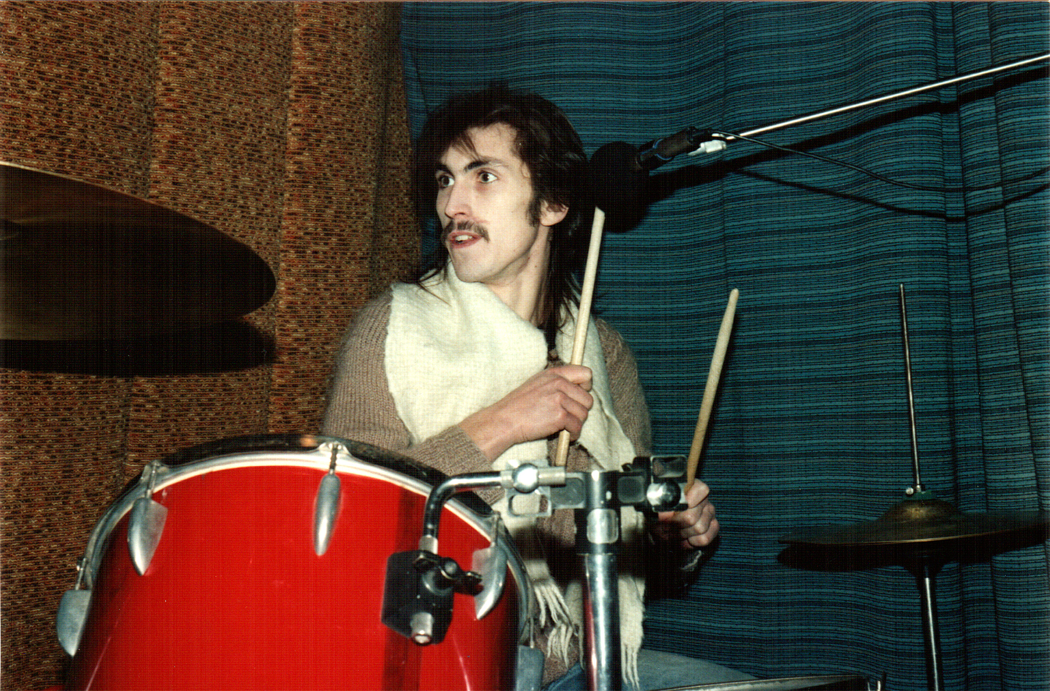 Aleksei Nikolayev, the co-founder (with Feodor Chistyakov) and drummer of the Russian rock band Nol, photographed during a rehearsal in Saint Petersburg, Russia, in 1991.